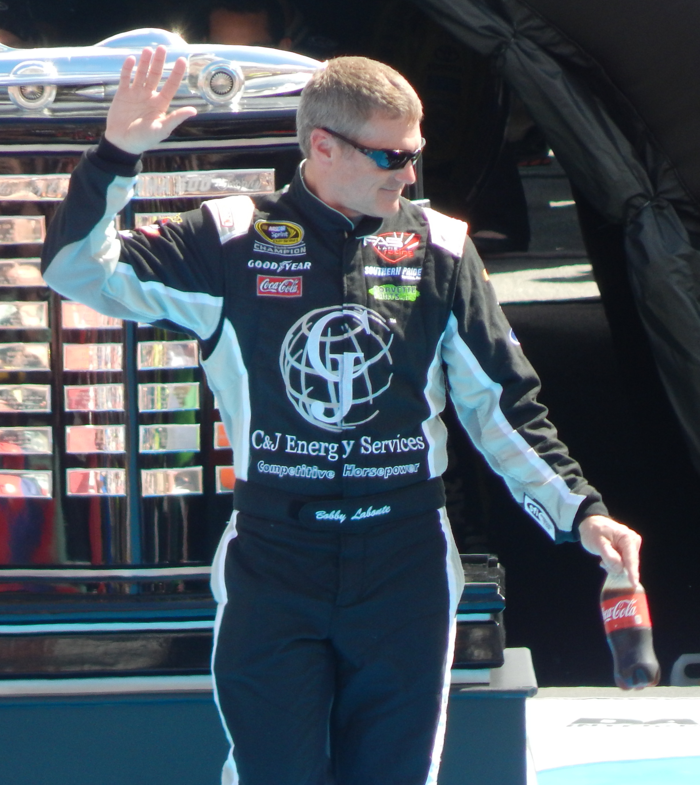 Bobby Labonte walking down the stage at driver intro's.